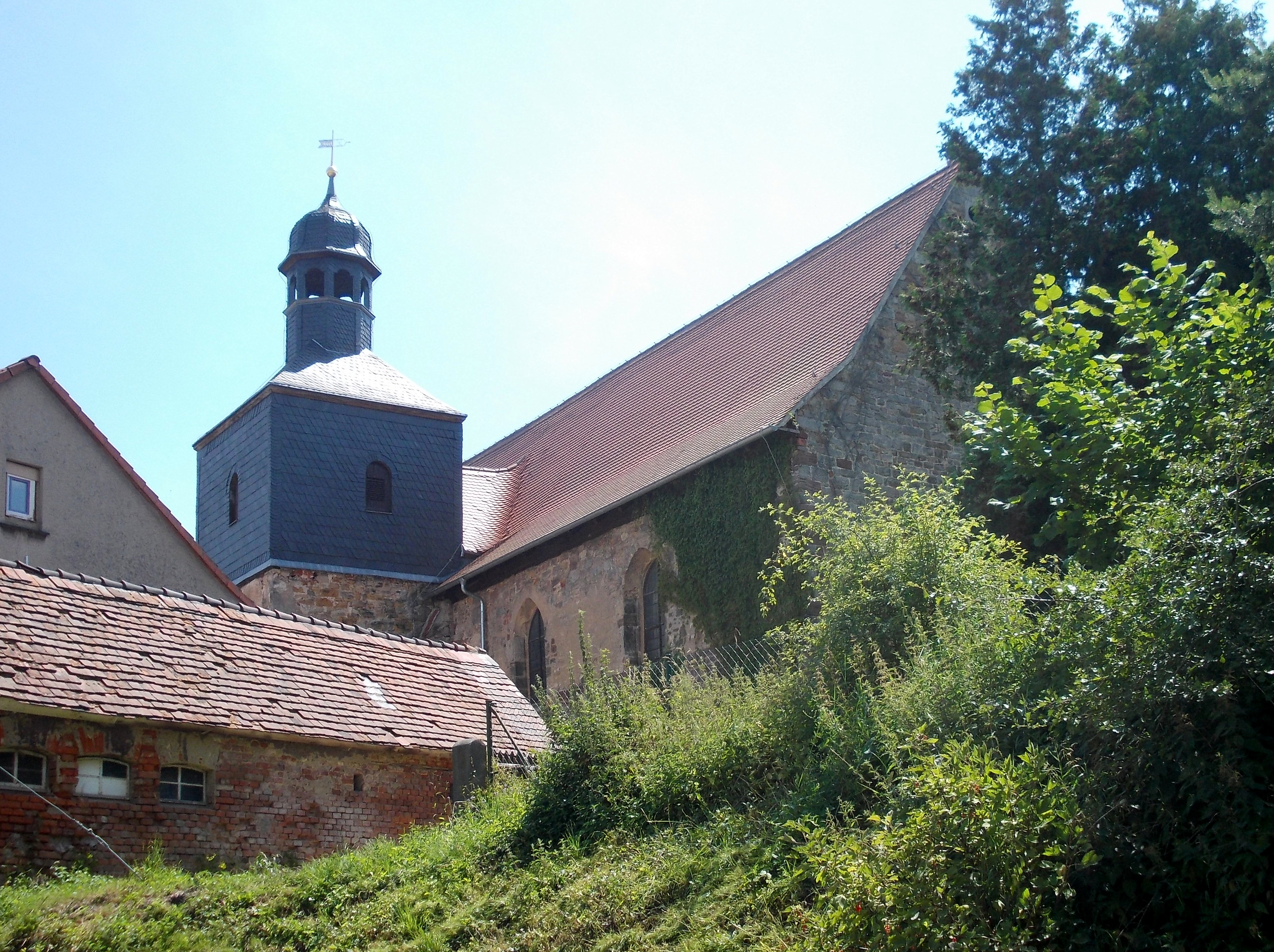 Lissen church (Osterfeld, district: Burgenlandkreis, Saxony-Anhalt)